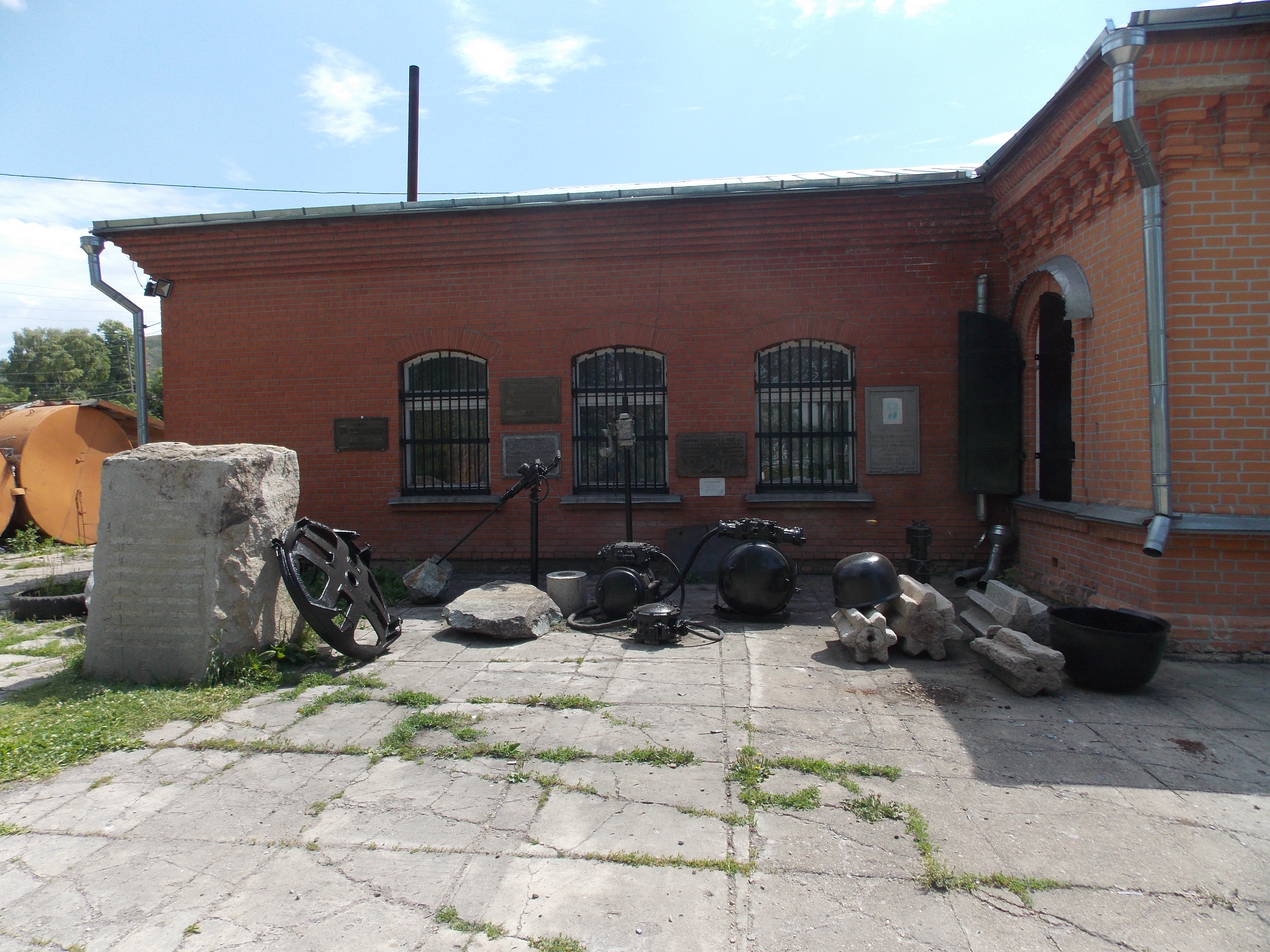 Part of the exhibition at the Museum of Mining Engineering History in Zmeinogorsk, including: mine telephone, mining hammer drill, four threshing stones, transmission wheel, memorial plaques, tombstone.